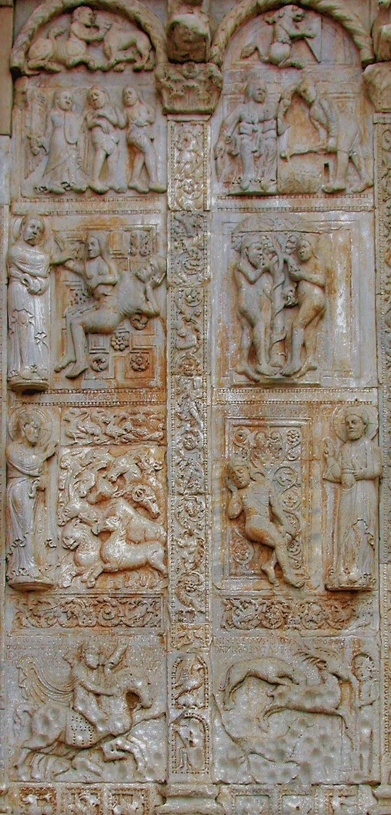 Verona, church of San Zeno Maggiore, panel with sculpture on the right side of the main door